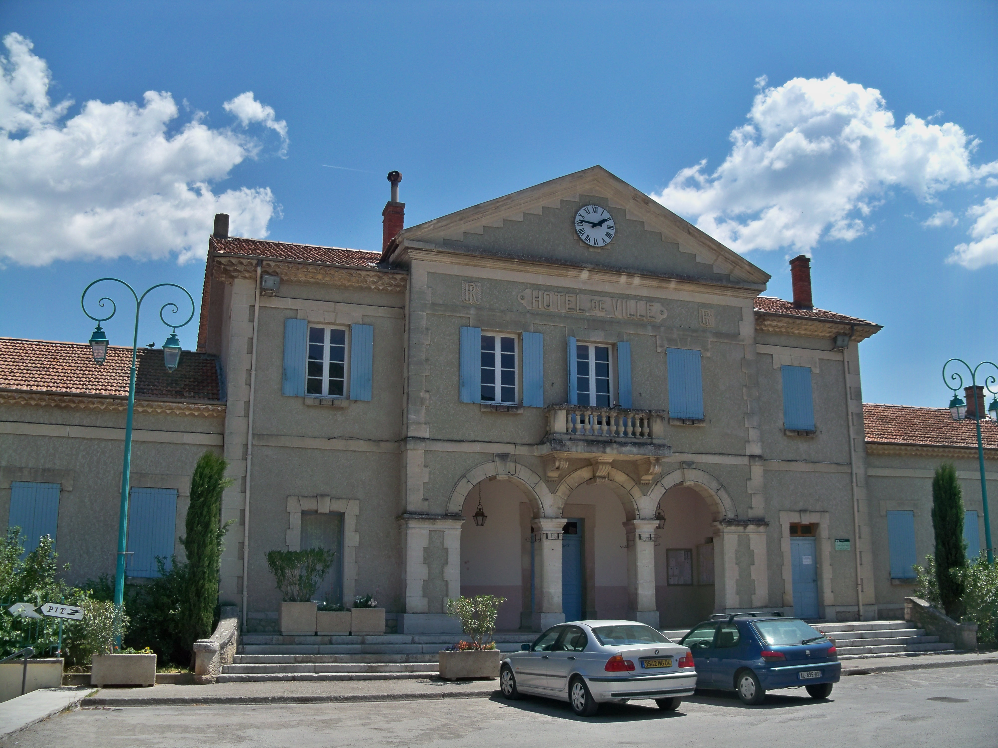 Volx town hall